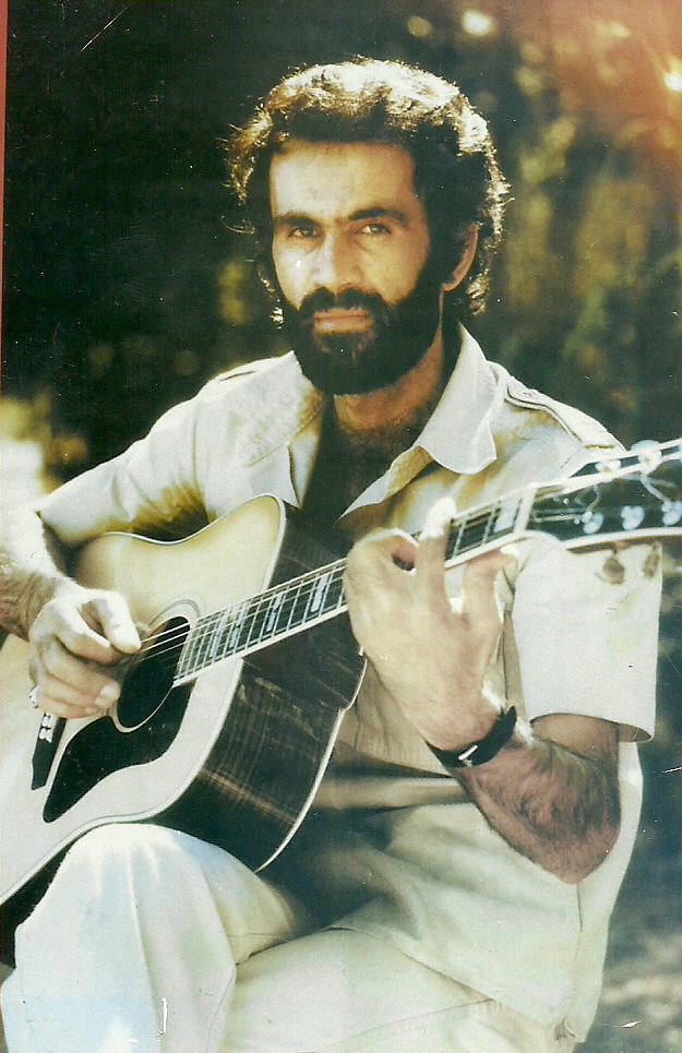 habib Mohebbian, Iranian vocalist and songwriter.